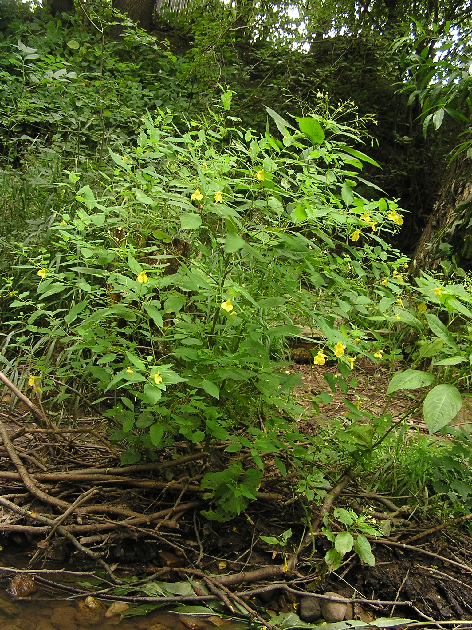 Touch-me-not Balsam, together with Impatiens parviflora